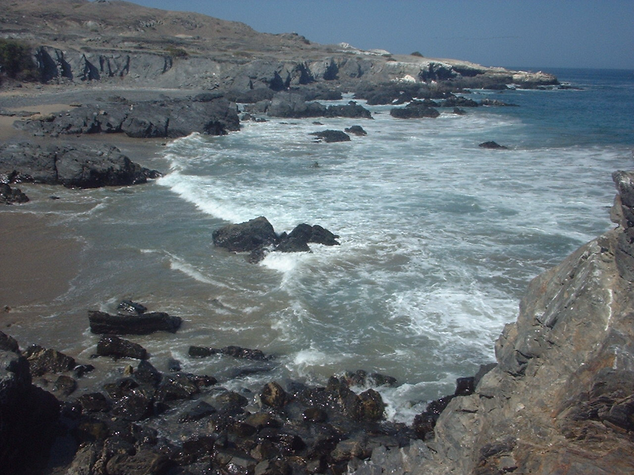 Illescas I took this picture and release it: Picture taken at the Illescas Peninsula, Departamento Piura, Peru in December 2003.